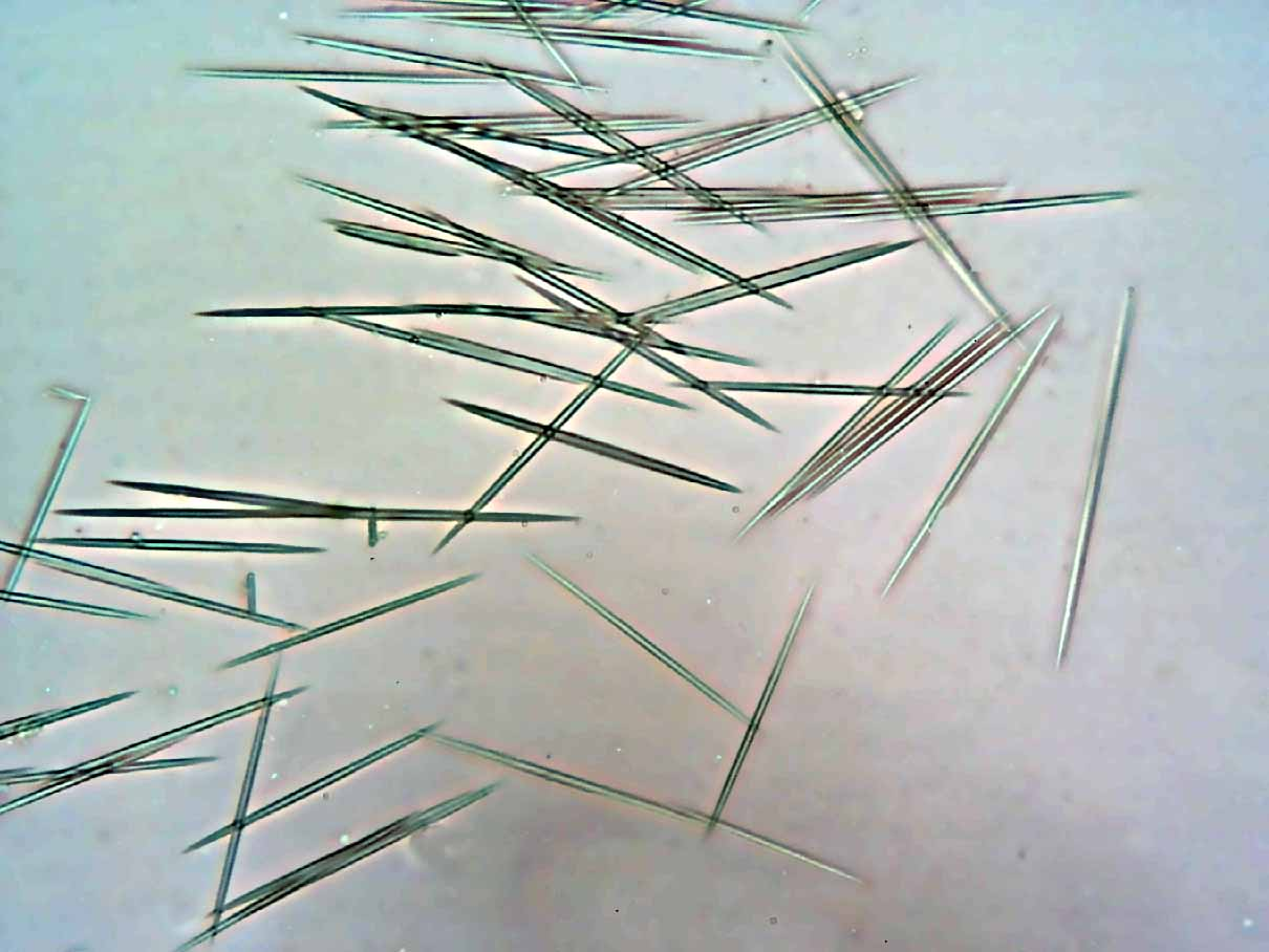 Microscope image 600x of raphides from liquidized variegated ivy